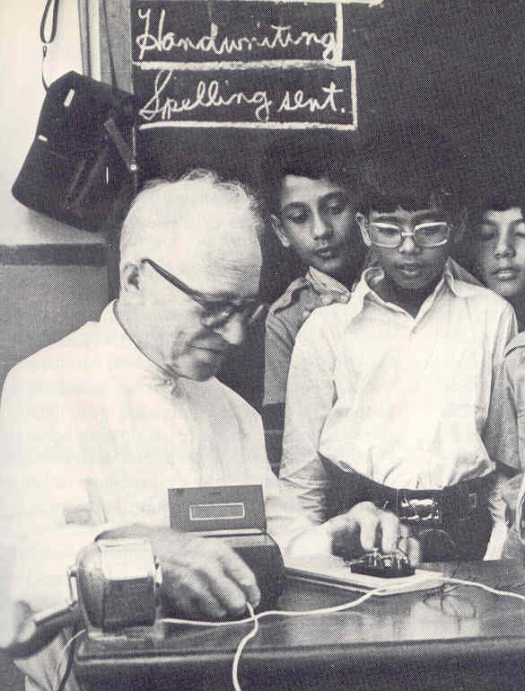 Jesuit father Marshall D. Moran, ham radio operator in Kathmandu (with students)